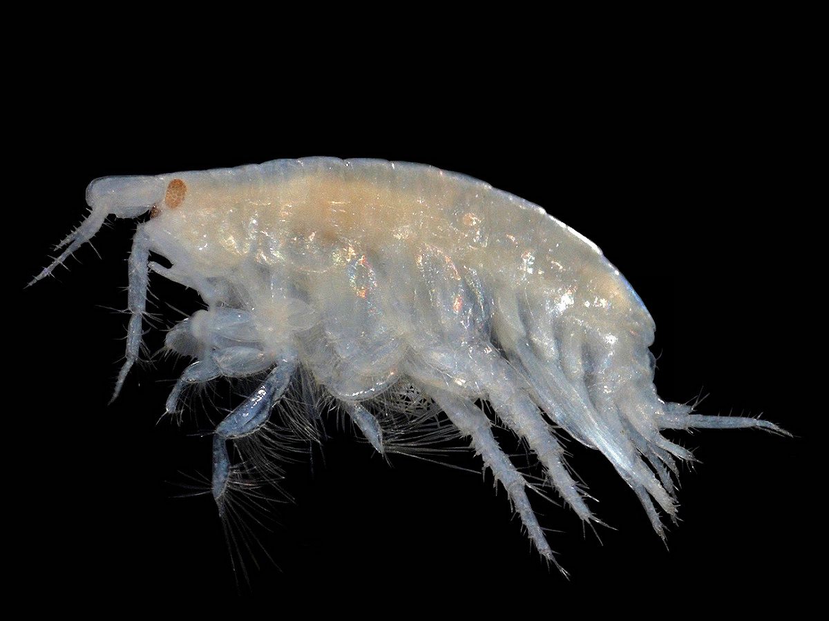 Burying amphipod from subtidal sandy substrates.Camera mounted on a Zeiss Stemi C-2000 binocular microscopeLength: ~7 mm.Belgian Continental Shelf.